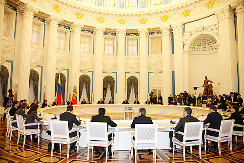 THE KREMLIN, MOSCOW. Meeting with members of the ‘first hundred’ in the high-potential management personnel reserve.